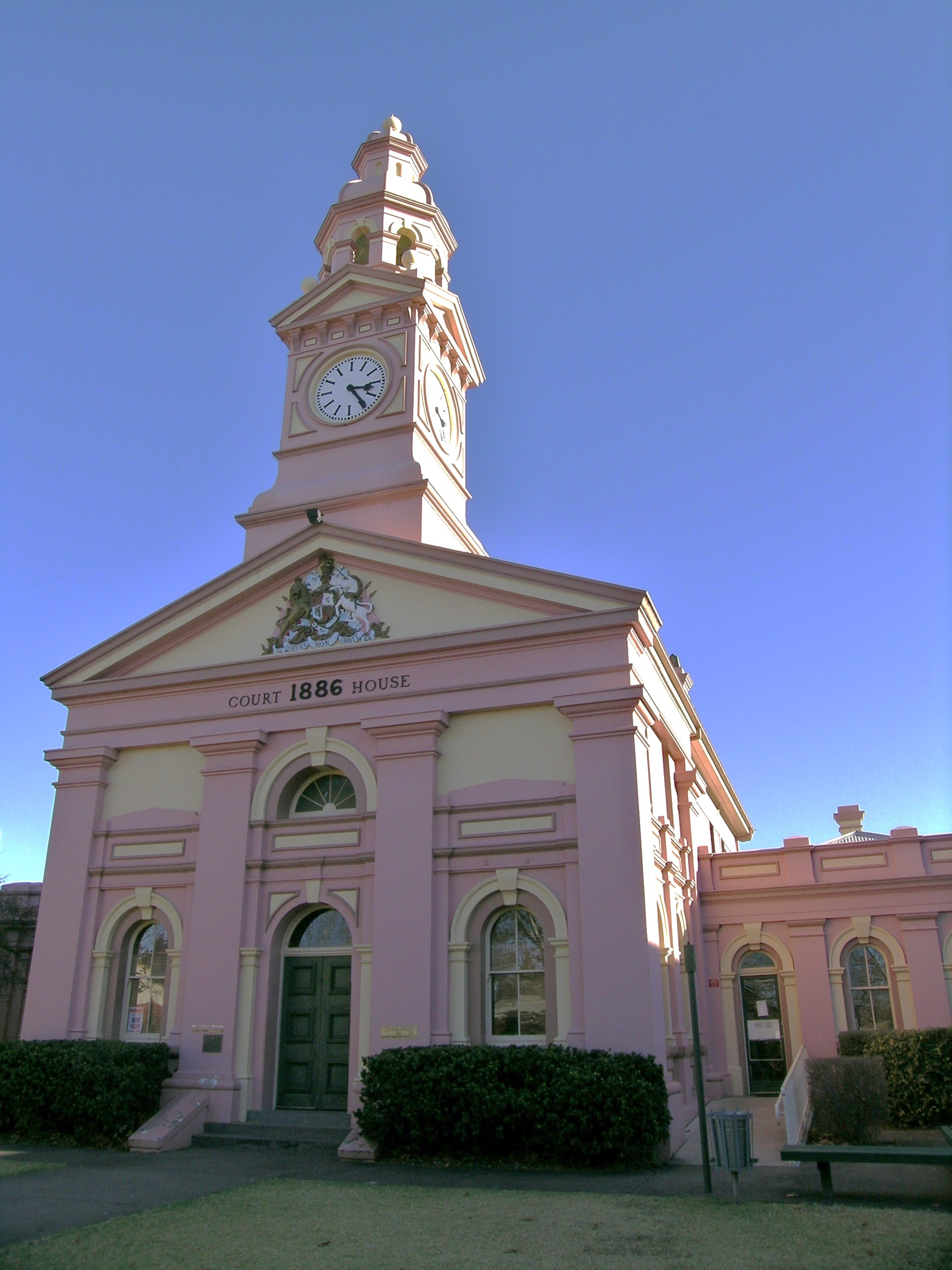 Inverell Court House built in 1886.